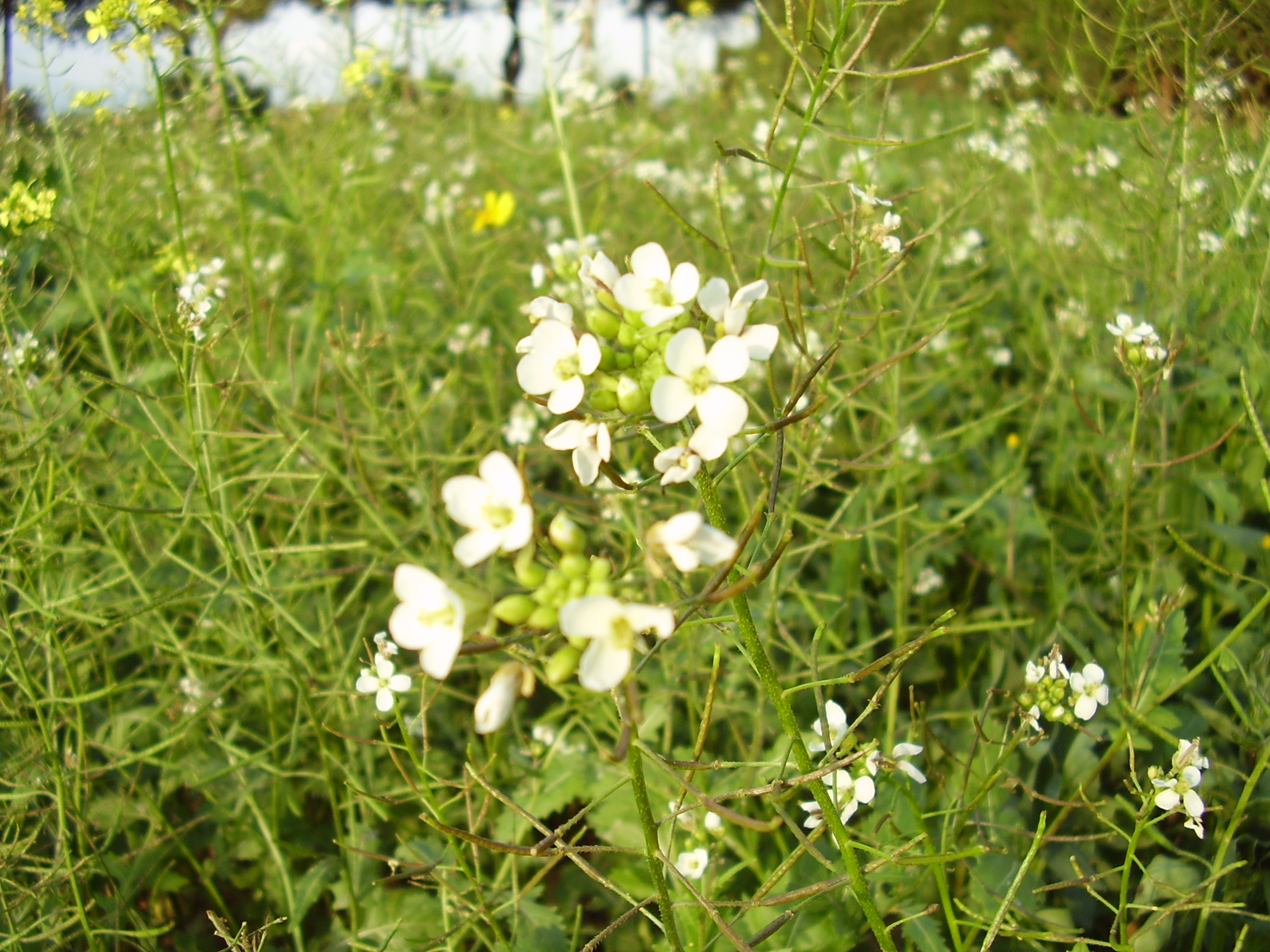 White wild radish(Diplotaxis erucoides), Mallorca.